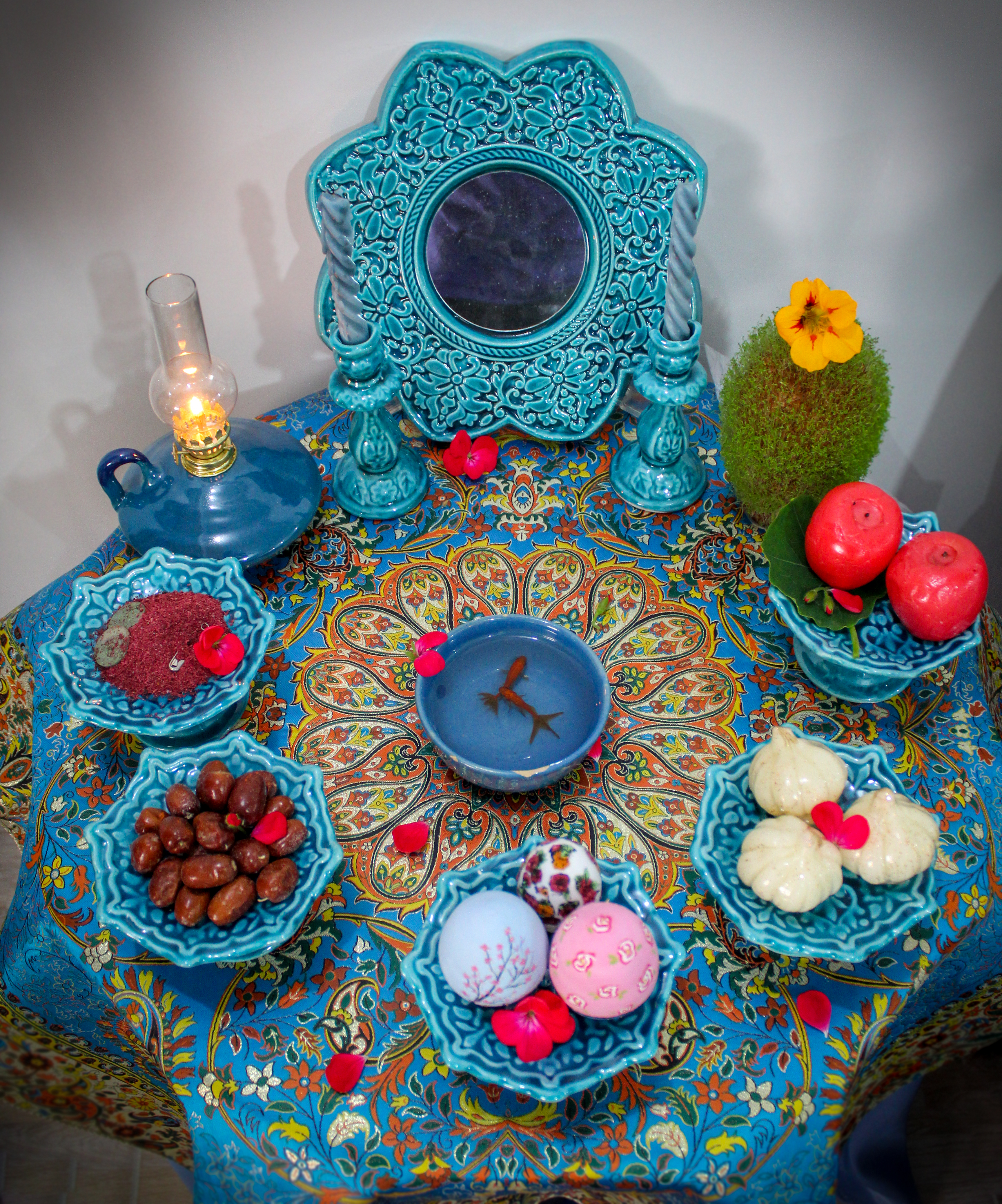 Haftsin of Iranian people